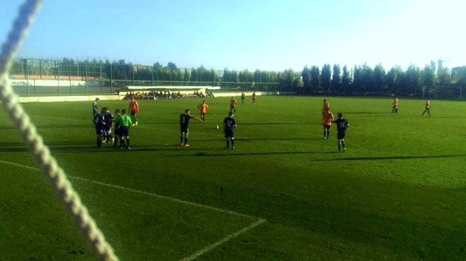 Banants training centre, pitch no.4 (natural), 28 Oct. 2015, Yerevan, Armenia